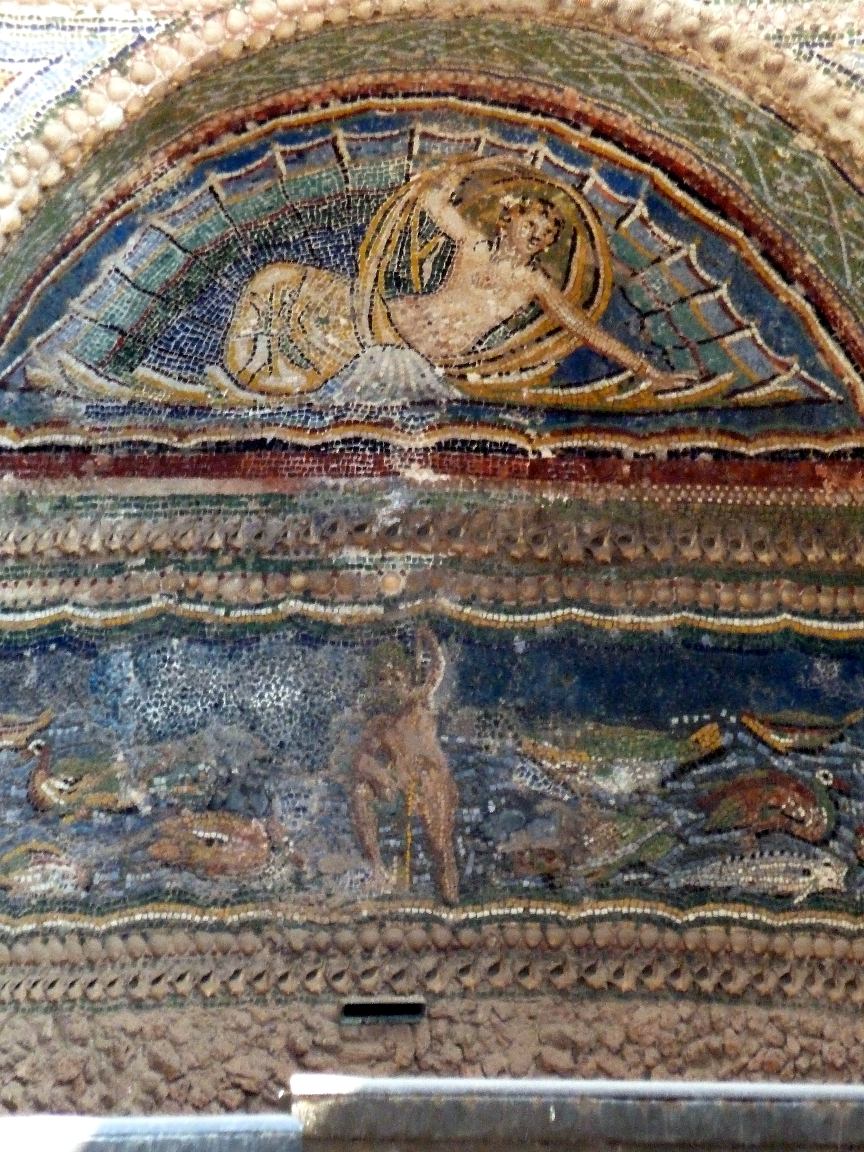 Casa dell'orso ferito (House of the Wounded Bear) - Fountain Detail